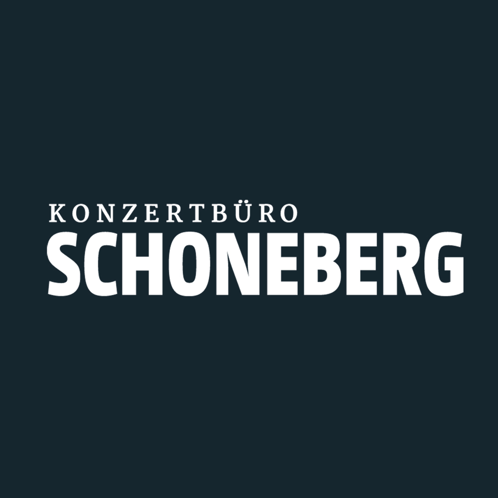 Company logo of Konzertbüro Schoneberg GmbH